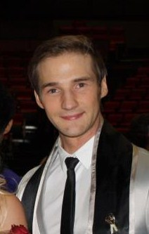 Ron Wear at Miss World Canada 2012